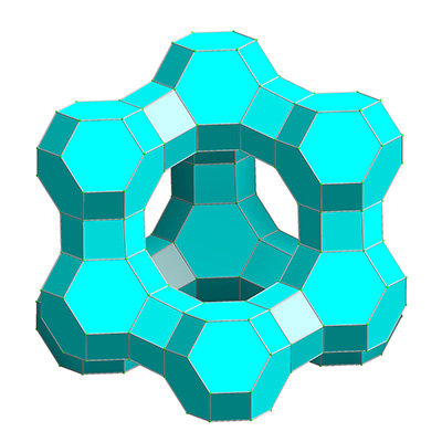 Crystal structure of zeolite Y